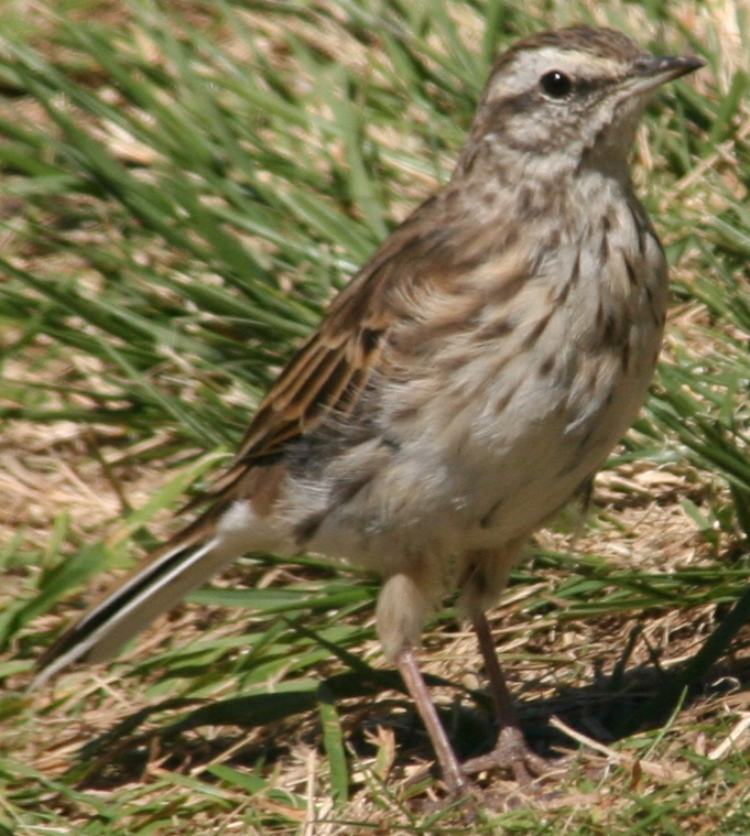 New Zealand Pipit Anthus novaeseelandiae novaeseelandiae. Kapiti Island early 2010.